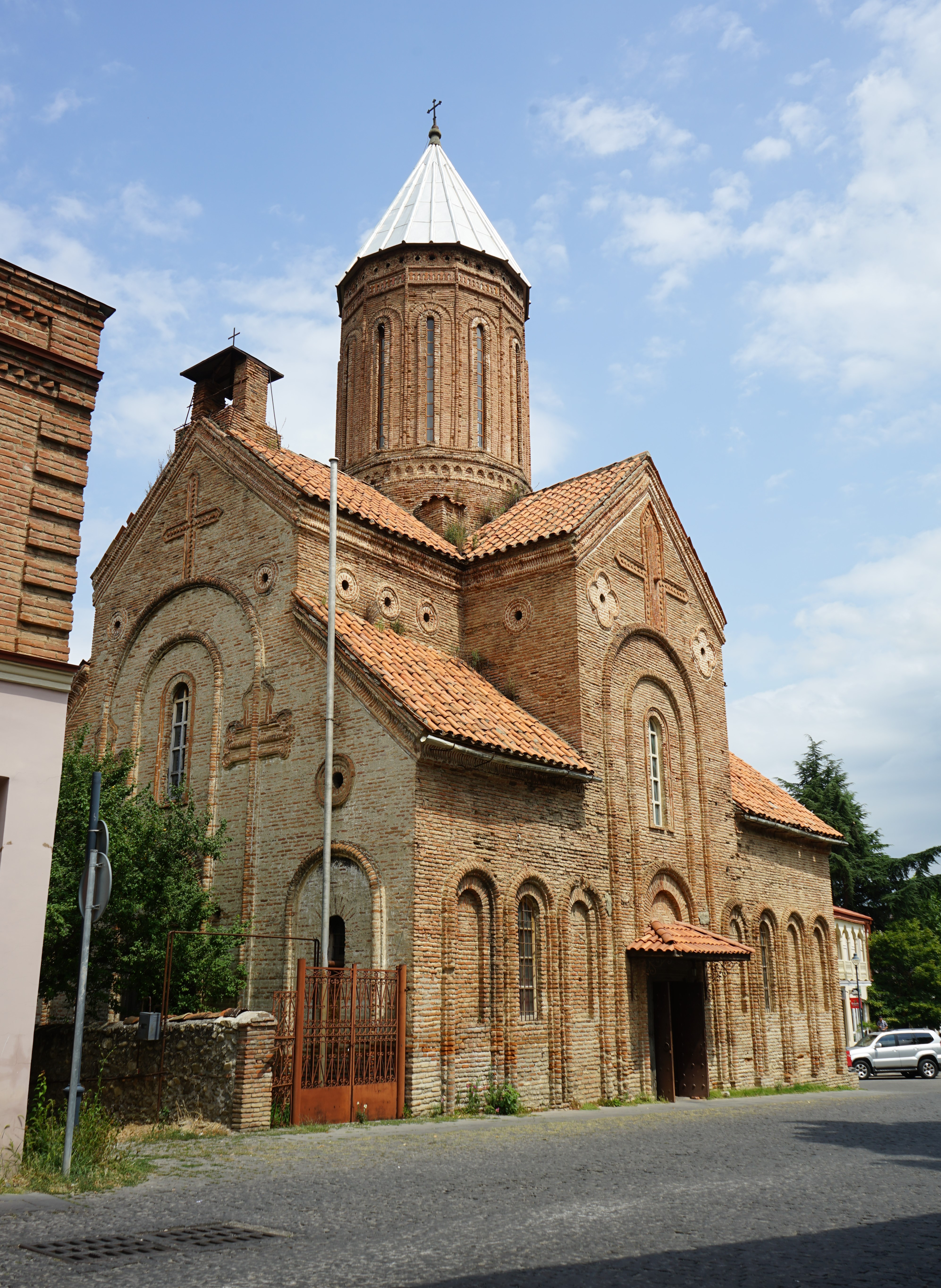 Mother of God Church, Telavi, Georgia